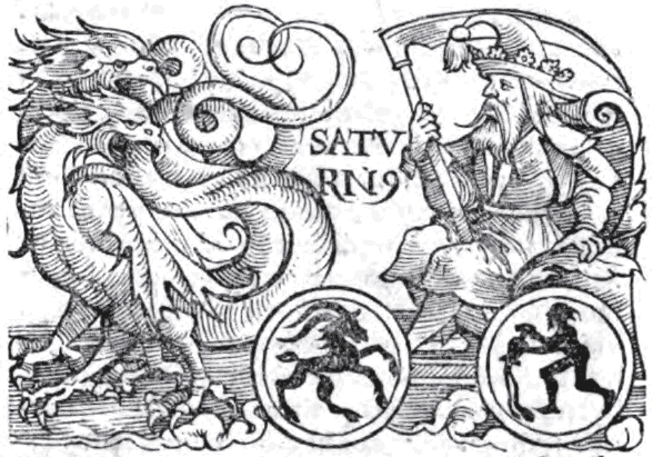 Saturn, from Guido Bonatti Liber Astronomiae